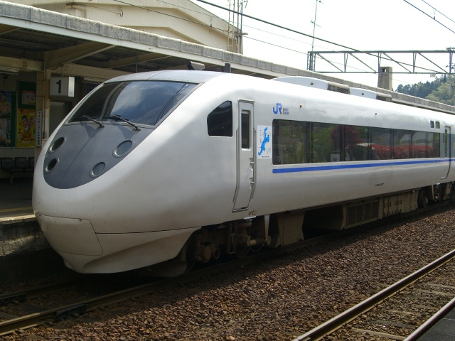 Japanese express train "Thunderbird". Picture taken by Endroit in Japan on 6 May 2006.Endroit